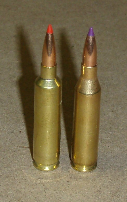 Ammunition picture of .243 Winchester and .243 Ackley Improved cartridges